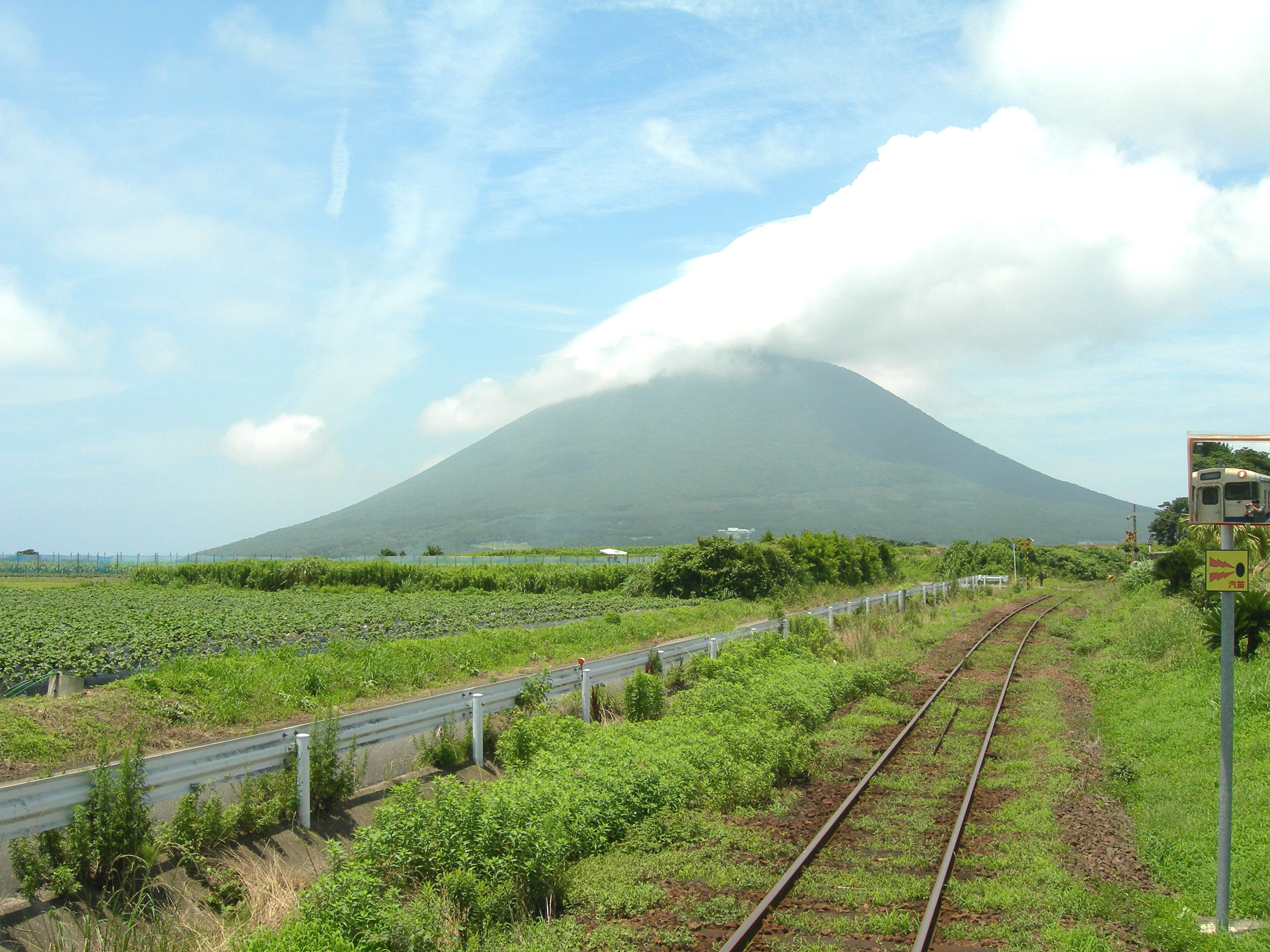 View toward Makurazaki from Nishi-Oyama Station platform